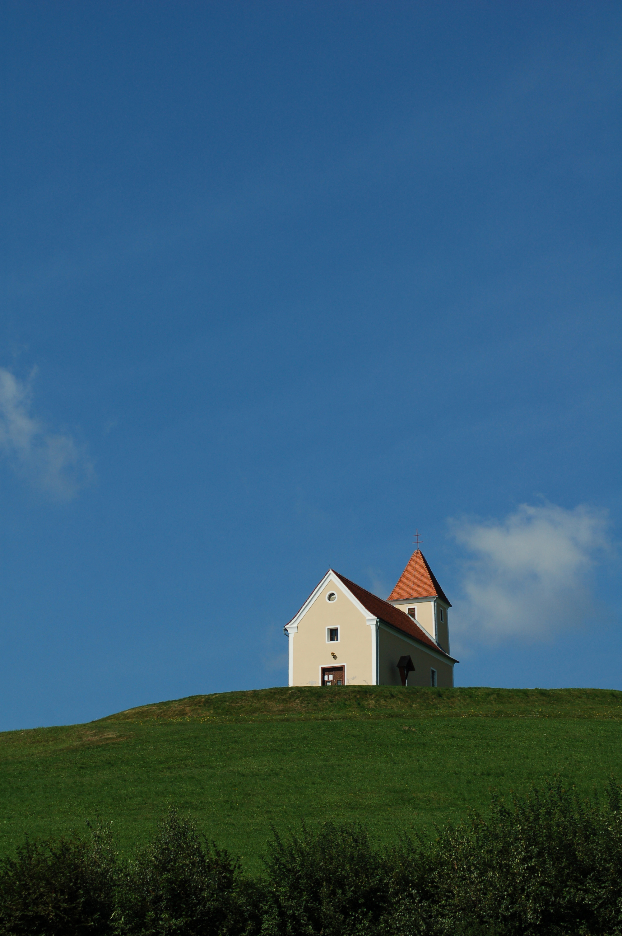 small church St.Pankrazen on the eastern slope of Masenberg in Styrian village Stambach, near Hartberg